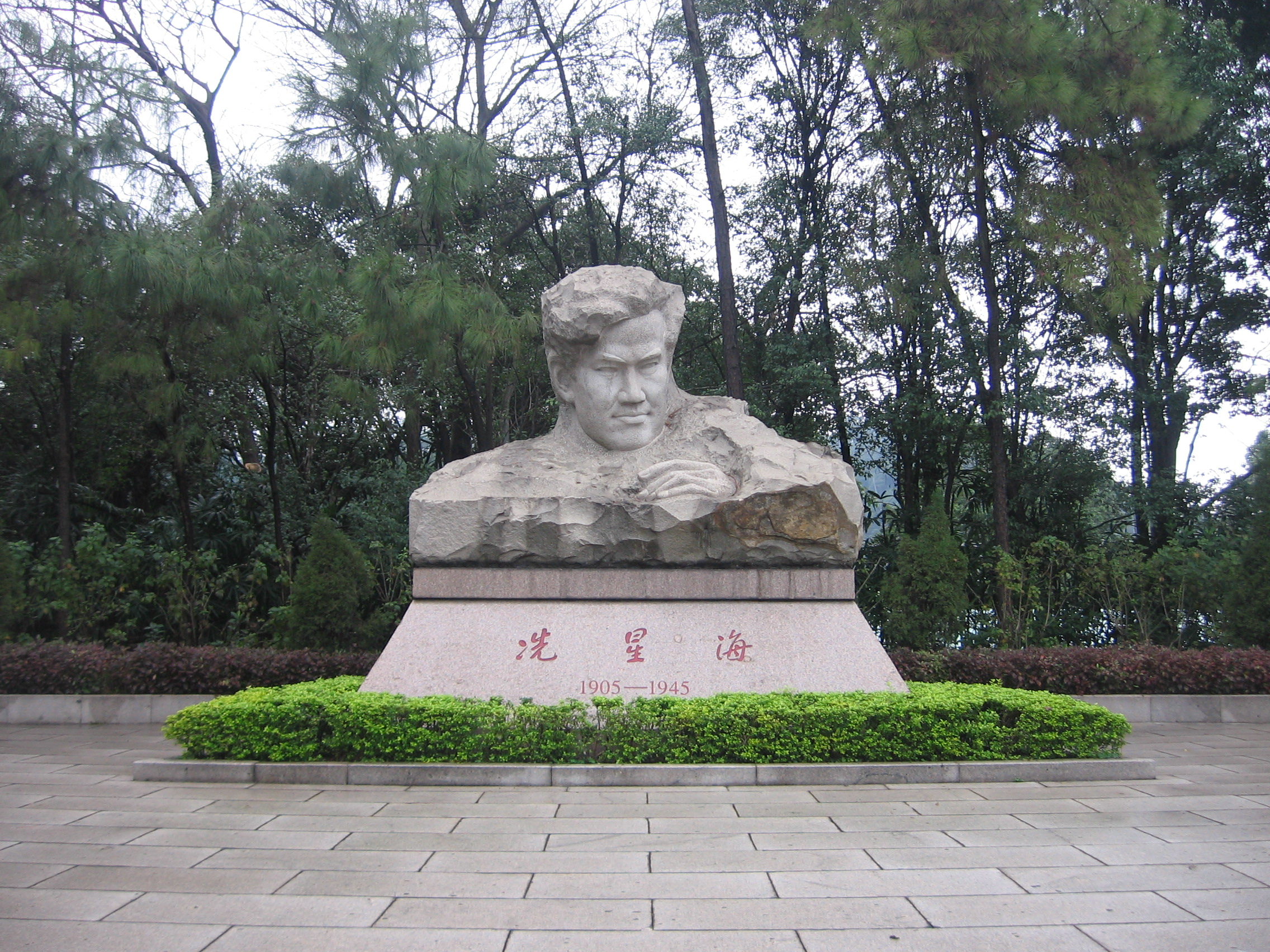 Tomb of Sinn Sing Hoi, Guangzhou City, Guangdong Province, China.